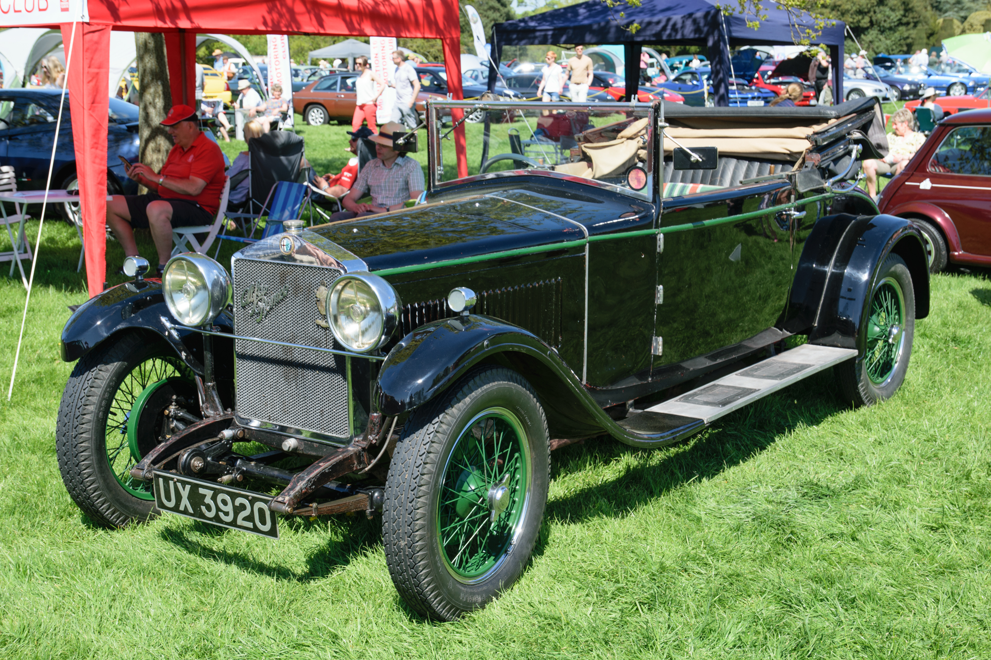 Catton Hall Classic Car Show 06/05/2018